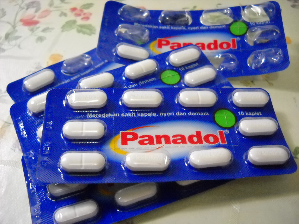 Panadol, used for reducing pain and fever, Indonesia.